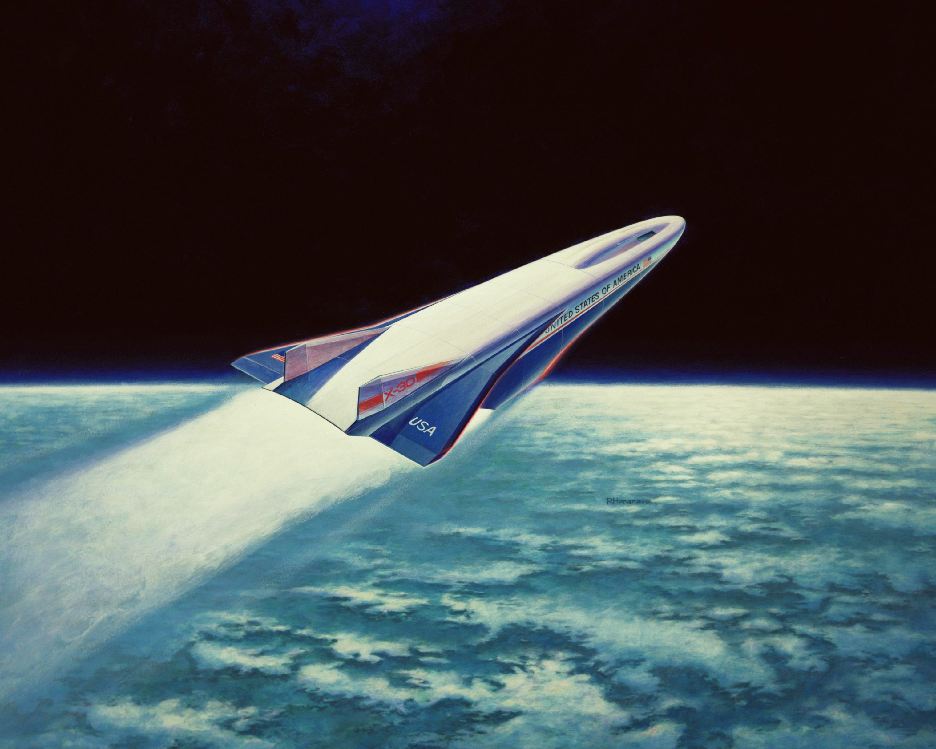 Artists concept of the X-30 aerospace plane flying through Earth's atmosphere on its way to low-Earth orbit. the experimental concept is part of the National Aero-Space Plane Program. The X-30 is planned to demonstrate the technology for airbreathing space launch and hypersonic cruise vehicles. Photograph and caption published in Winds of Change, 75th Anniversary NASA publication (page 117), by James Schultz.